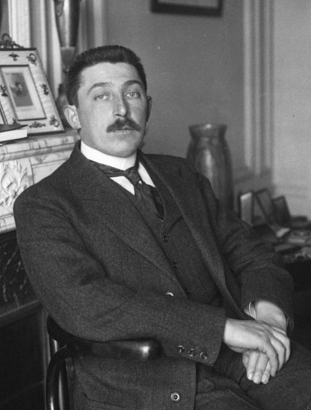 French politician René Besnard (1879-1952).